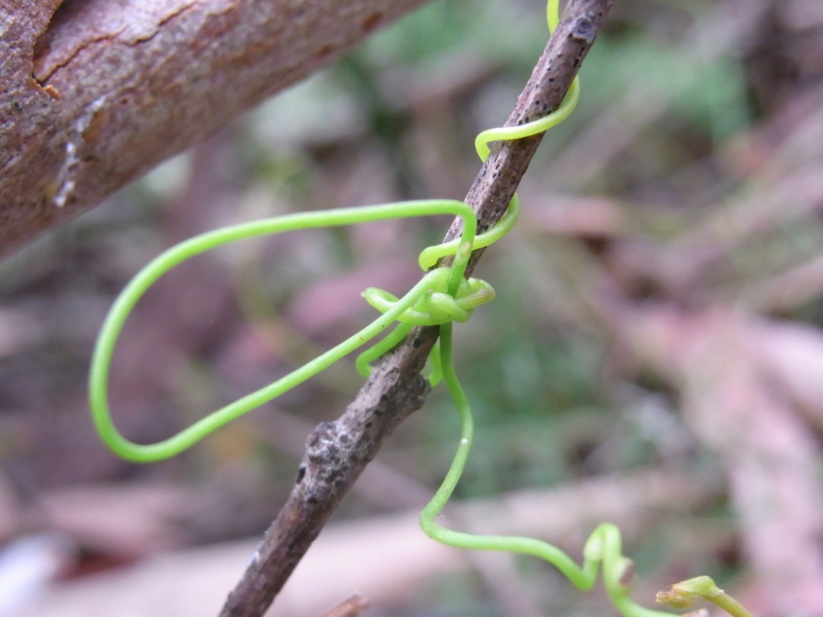 Climber on Blackbutt twig, Chatswood West, NSW, Australia. Probably Cassytha glabella